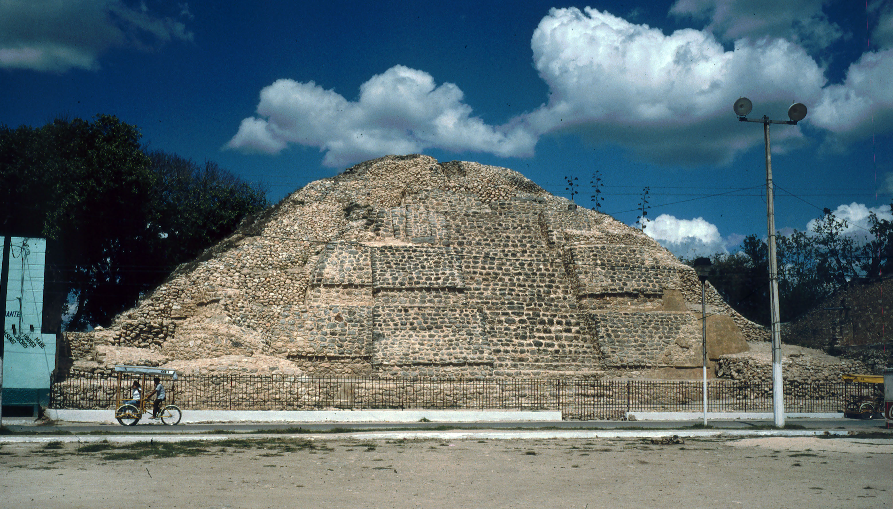 Acanceh,Yucatan, Mexico: main pyramid.